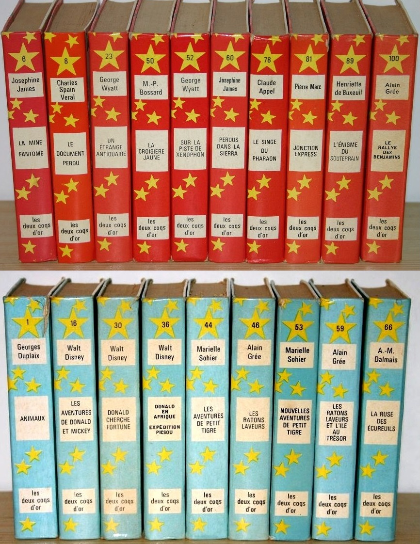 Étoile d'or, French children's books collection. Publisher : Éditions Deux Coqs d'or.